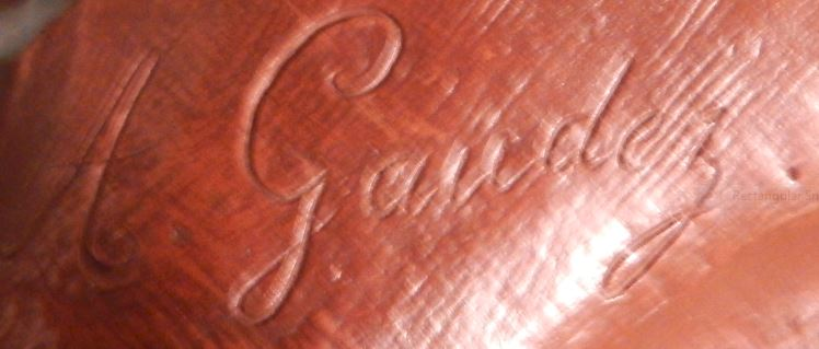 The signature of French sculptor Adrien Etienne Gaudez